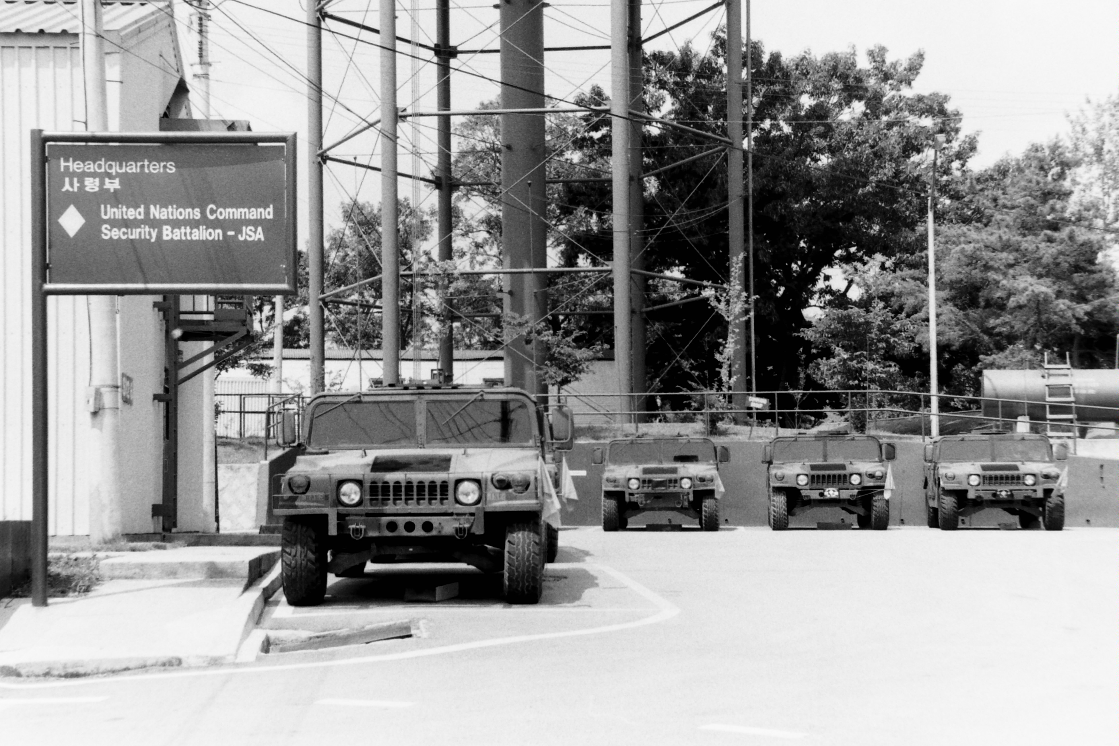 Vehicles at headquarters of the United Nations Command in the Korean Demilitarized Zone. :Photo taken 1996 in the JSA.